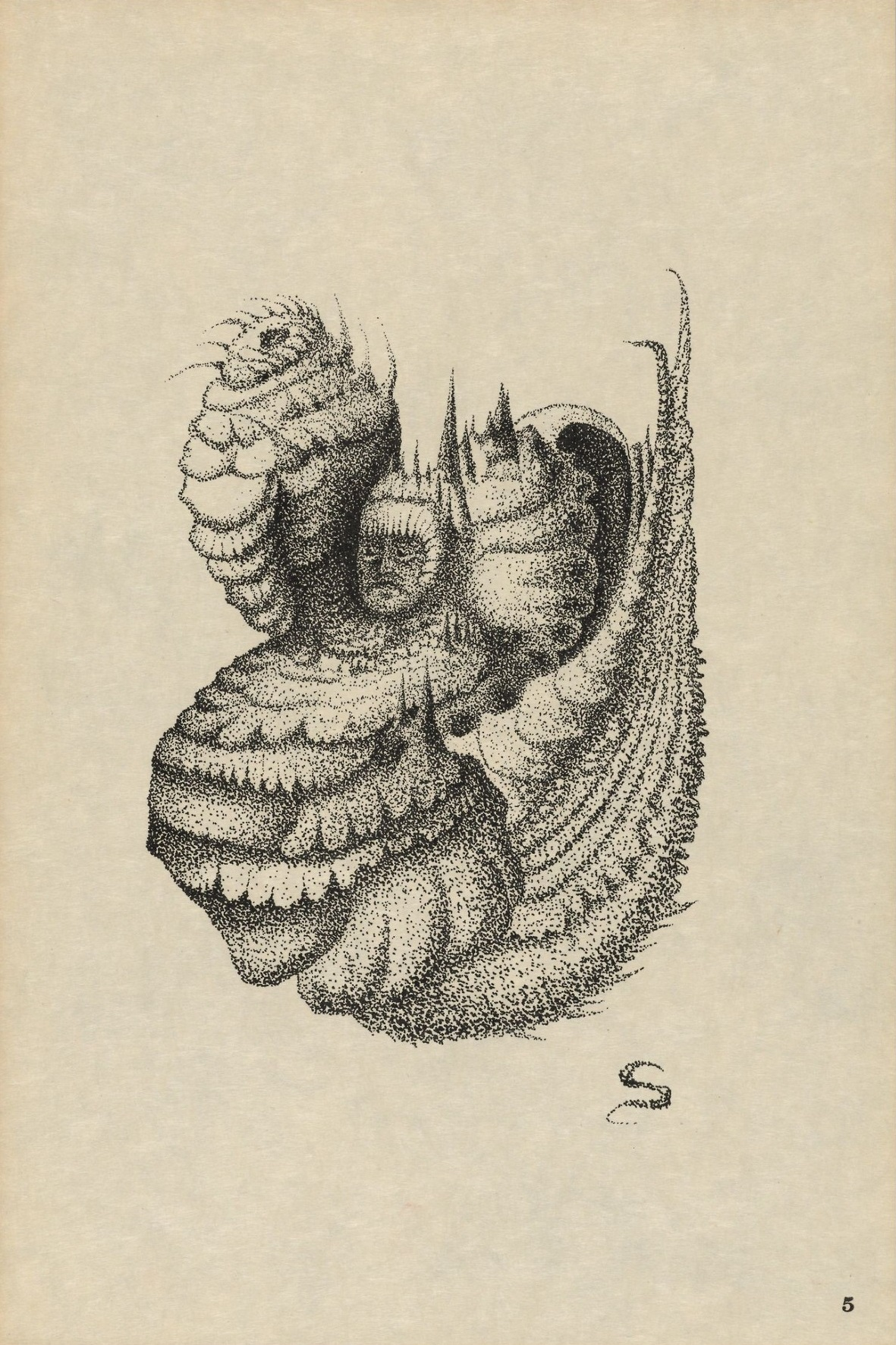 Illustration, plate 5, from Jenseits-Galeri (Berlin: 1907), by Paul Scheerbart (1863-1915). Typ 920.07.7733, Houghton Library, Harvard University